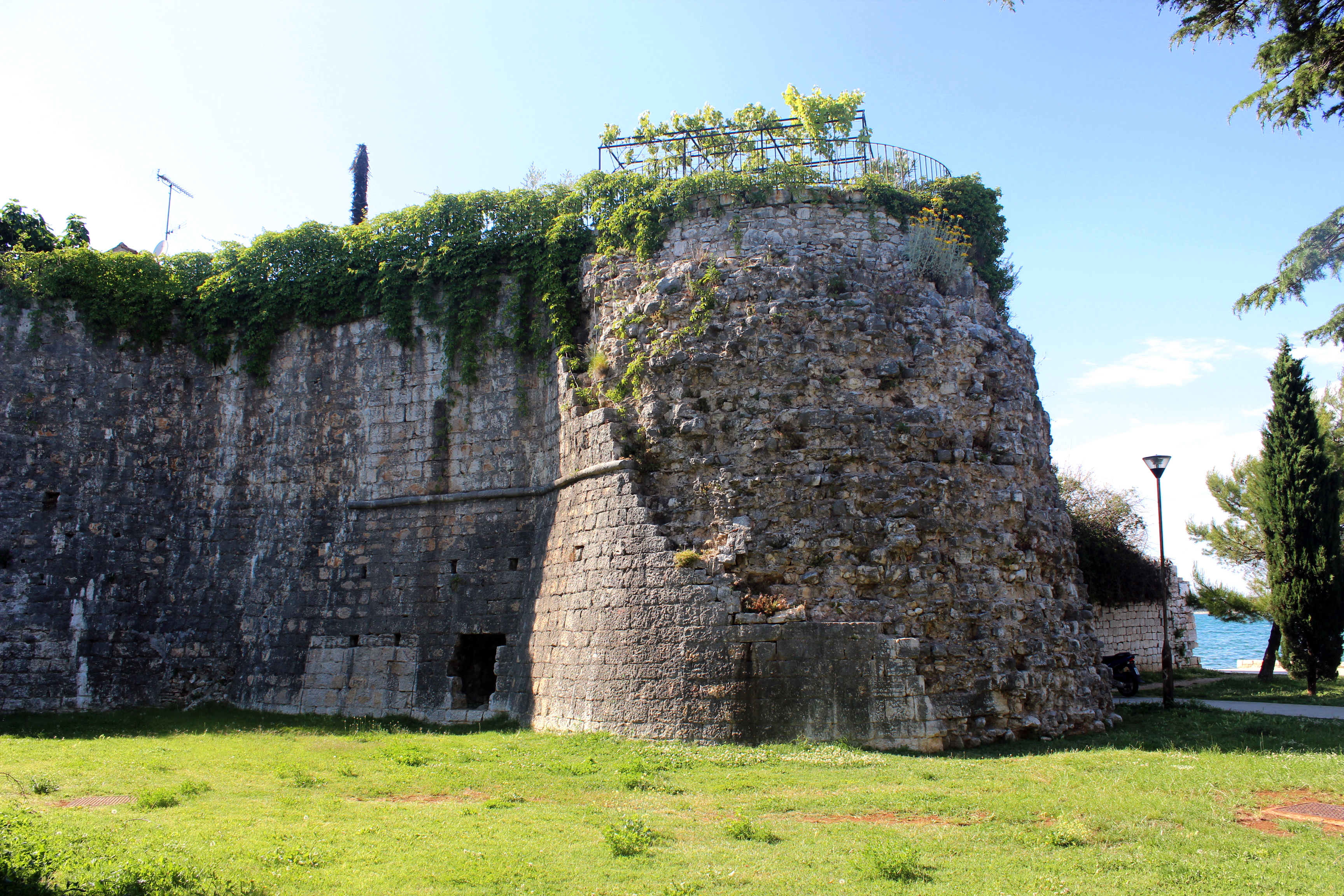 Fisherman defence tower (Obrambena kula), 1473, in Poreč, Croatia